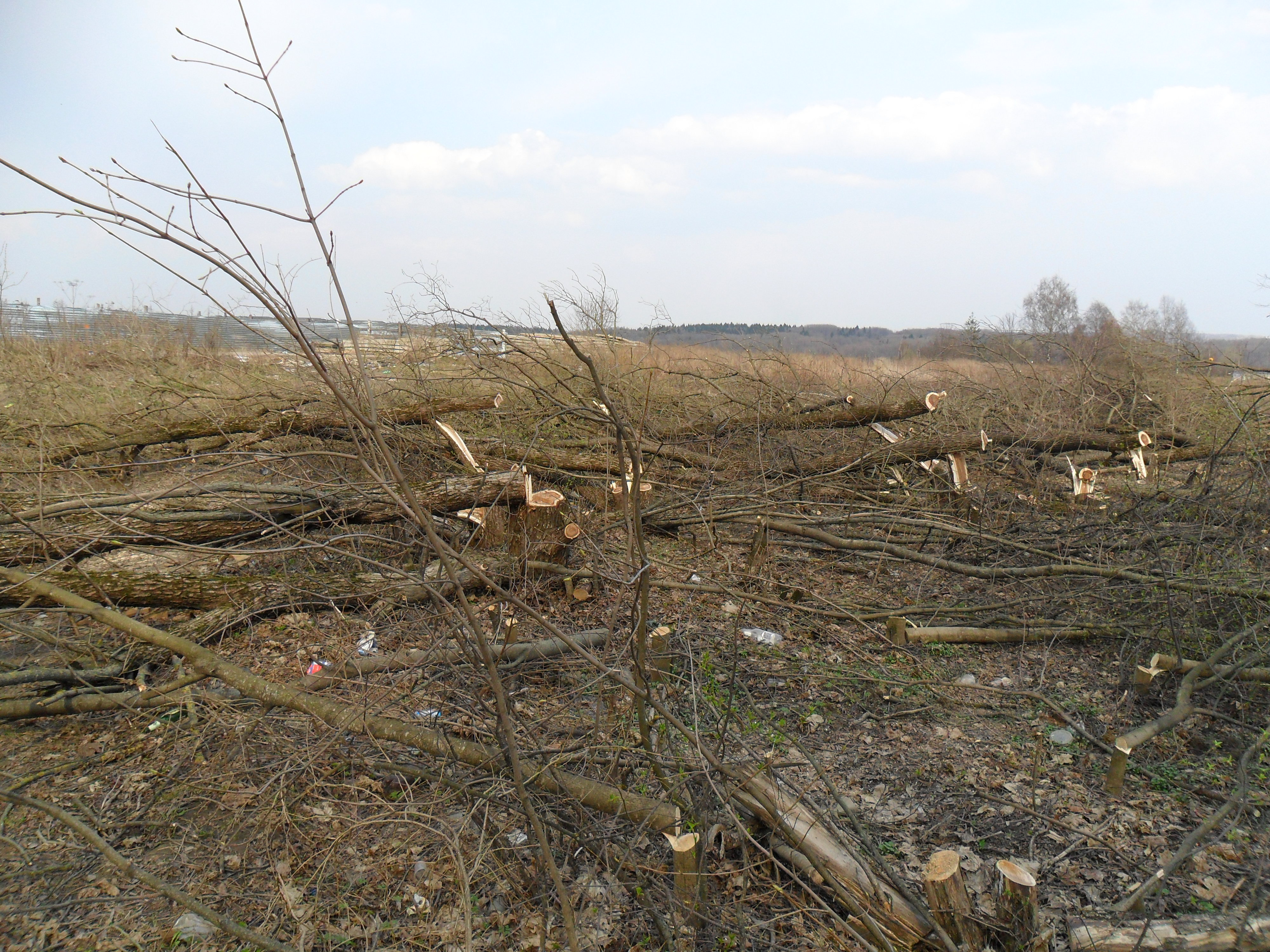 Those trees, which tops were strongly brought down by the plane, has been decided to cut.